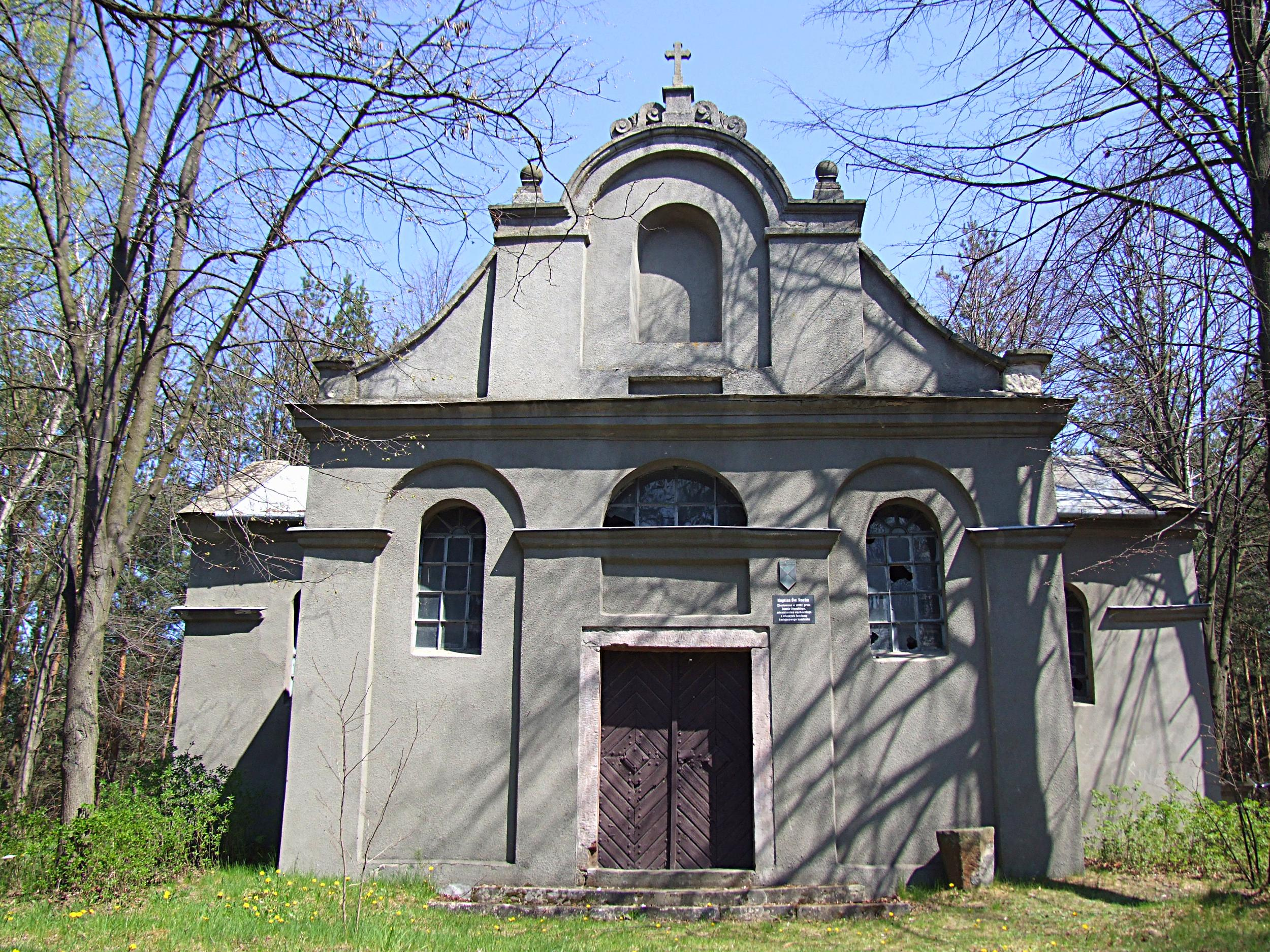 Saint Roch chapel in Wąchock, Poland